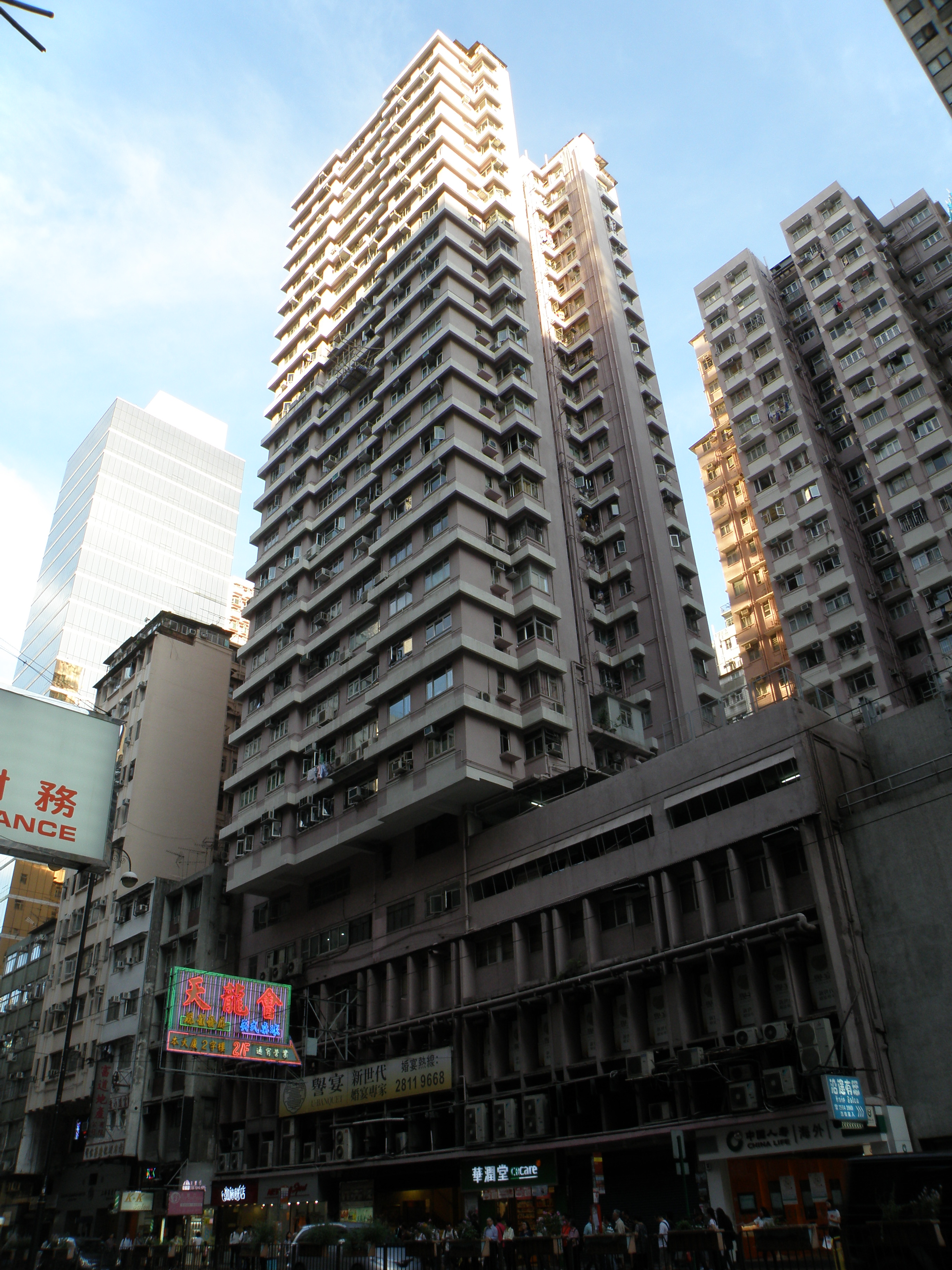 King's Towers in North Point, Hong Kong.